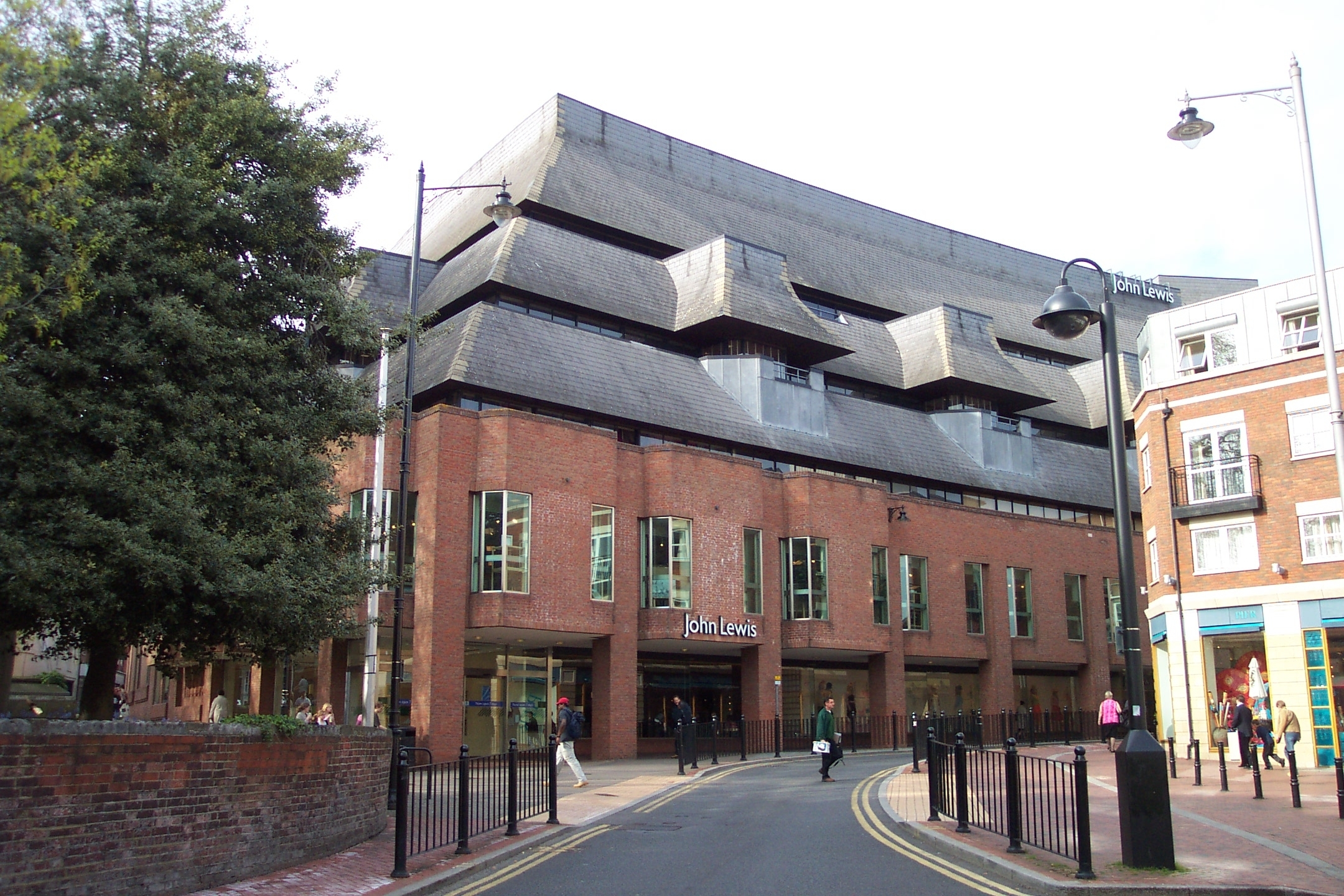 The rear elevation of the John Lewis department store in Reading's Minster Street. For more information, see John Lewis Reading.